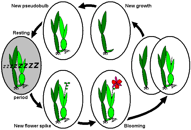 Annual life cycle of orchids with dormancy after completion of new pseudubulb